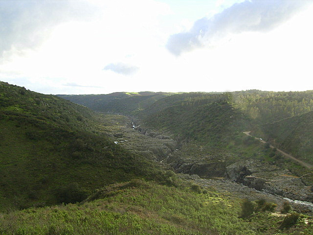 Waterfalls at Guadiana river - "Pulo do Lobo" (Wolf's Leap) - near Monte de Pias, Parque Natural do Vale do Guadiana, Alentejo, Portugal (37º 48' 16.67" N 7º 37' 56.20" W)